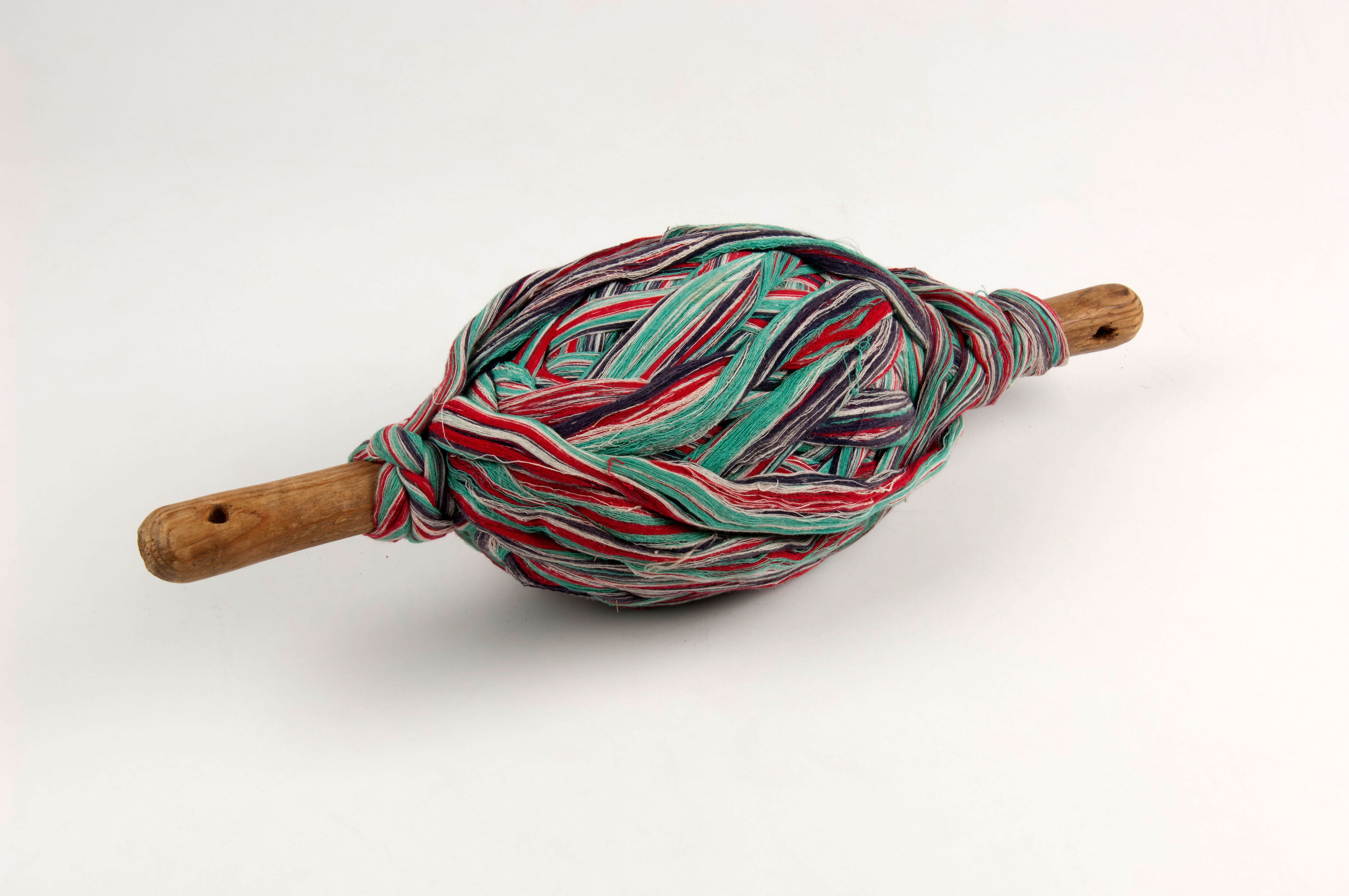 Collected by Josephine Powell .